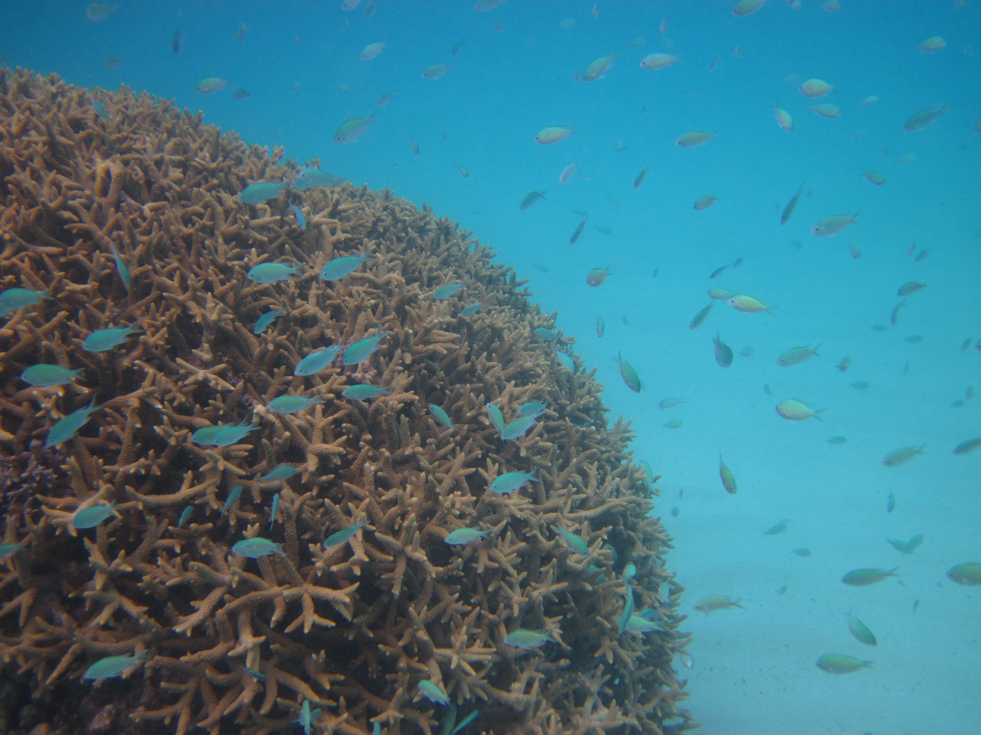 coral